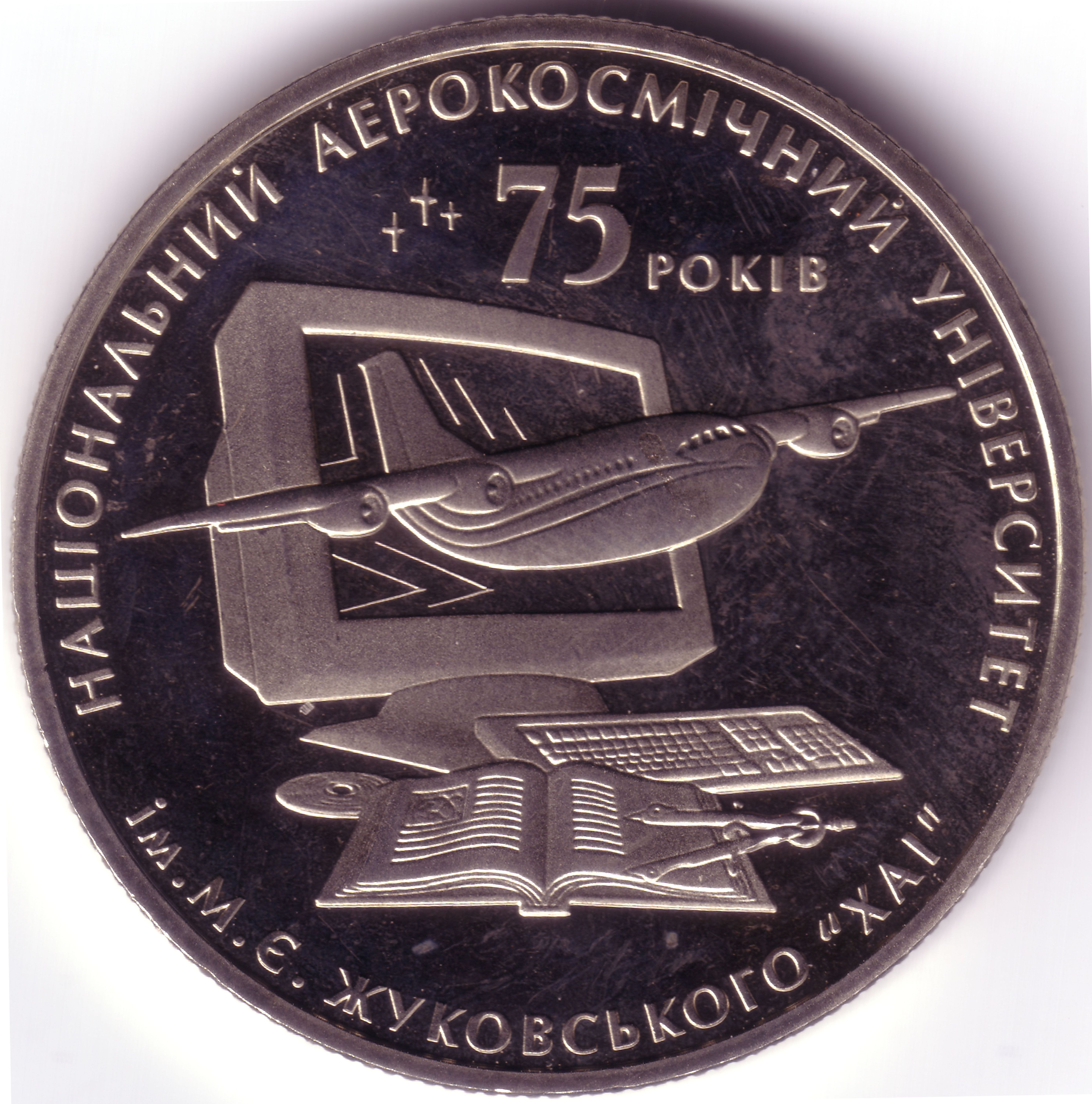 Ukrainian Coin KhAI 75 years reserve 2005